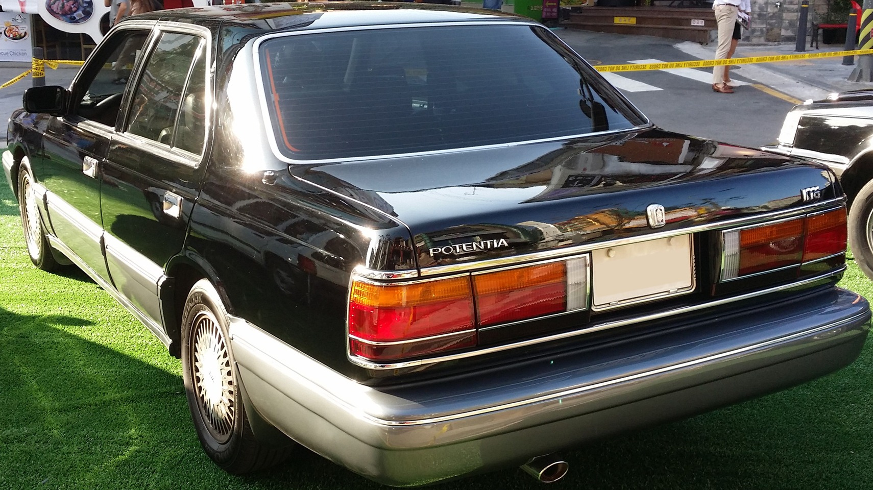 Kia Potentia